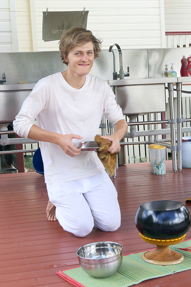 Associated with the tradition of Ajahn Chah, Dhammagiri aims ​to transcend today's bewildering confusion of Buddhist gurus, dogmas and techniques by returning to the original teachings​ of the Buddha as found ​in the early parts of the Pali Canon. Аҧсшәа: ที่เกี่ยวข้องกับประเพณีของ Ajahn Chah, Dhammagiri มีเป้าหมายที่จะเหนือกว่า ความว้าวุ่นใจในวันนี้ของนักวิชาการชาวพุทธ dogmas และเทคนิคโดยการกลับมา ไปตามคำสอนเดิมของพระพุทธเจ้าตามที่พบในตอนต้นของพระไตรปิฎกบาลี